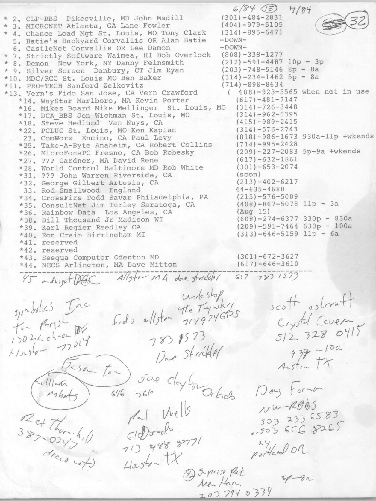 Pre-nodelist "fido list" June 1984. FidoNet. an image of one of the weekly list of new fidos. the original printout is a printed version of one of the "welcome" messages from Fido BBS #1 that i would write on to make edits. it soon got out of hand with errors as you might imagine.